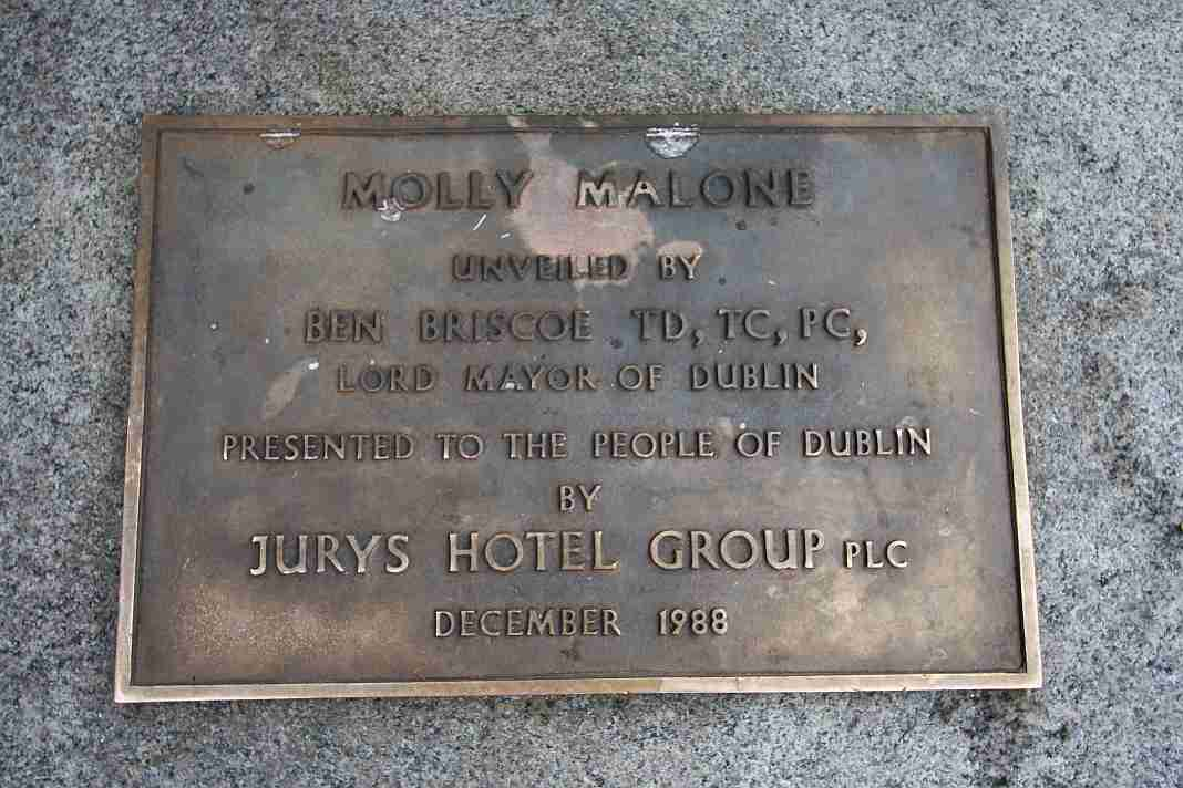 Plaque at the Molly Malone statue in Dublin